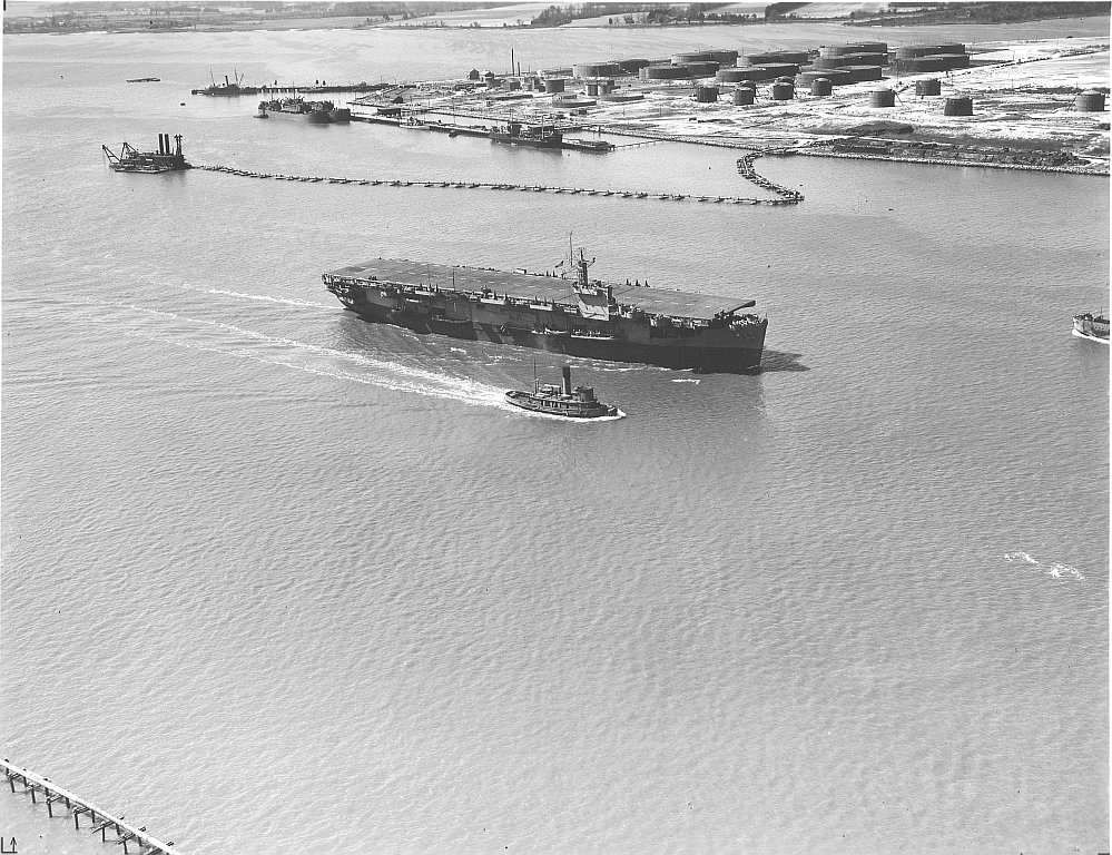 Aerial view of escort carrier USS Card (ACV-11) in Hamton Roads, Virginia